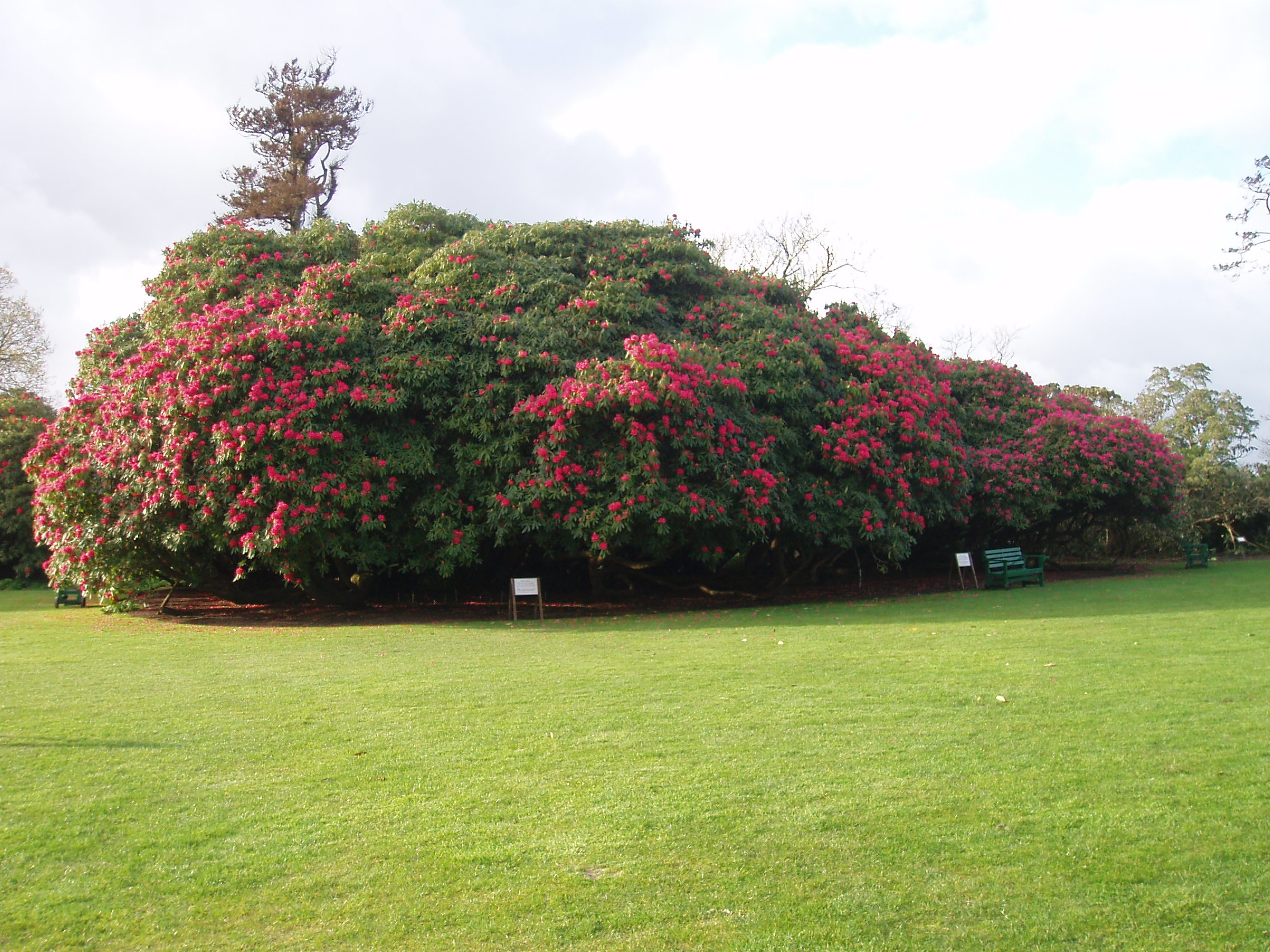 Flora's Green rhododendron tree at Lost Gardens of Heligan, Cornwall, UK.